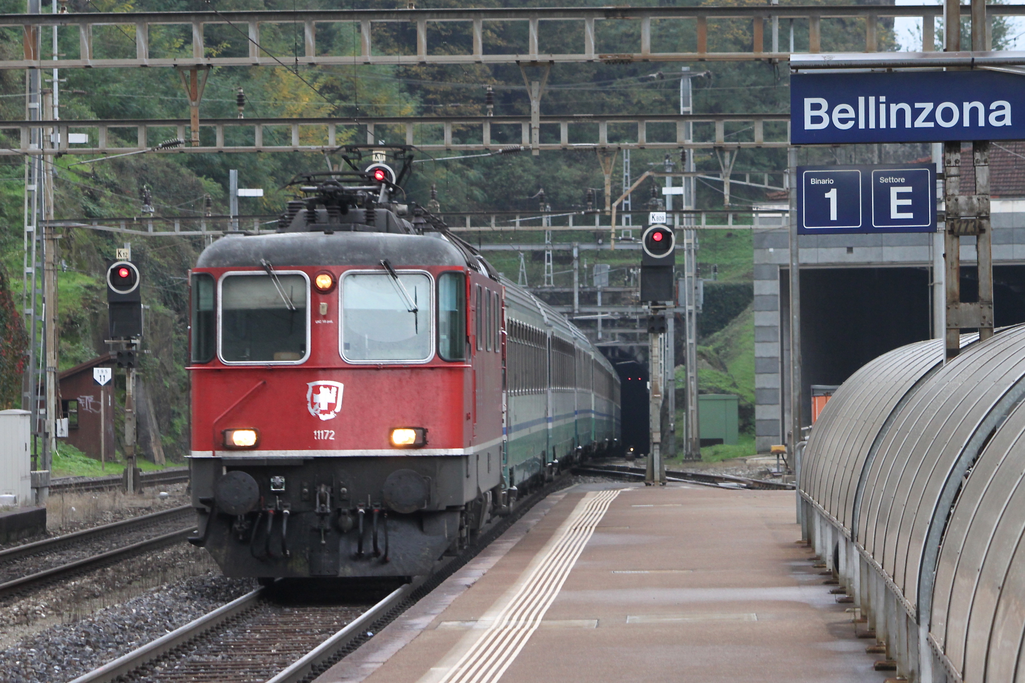 SBB CFF FFS Re 4/4 11172 (former MThB Re 4/4 21) arriving at Bellinzona train station ahead of EuroCity 114 from Milano C.le to Zürich HB.